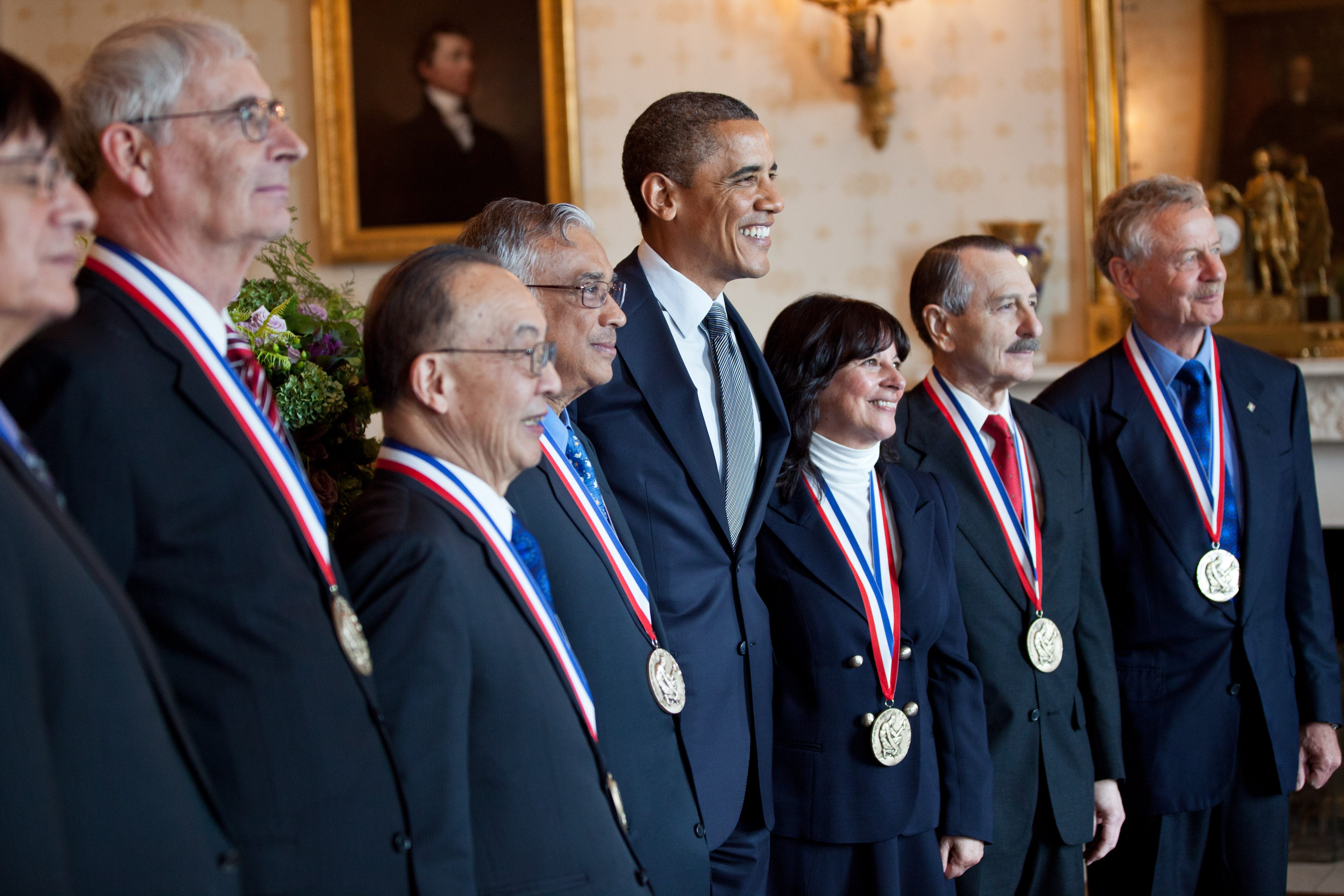 President Barack Obama stands with the 2010 National Medal of Science recipients in the Blue Room of the White House, Oct. 21, 2011. Pictured, from left, are: Dr. Richard A. Tapia, Dr. Peter J. Stang, Dr. Shu Chien, Dr. Srinivasa S.R. Varadhan, Dr. Jacqueline K. Barton, Dr. Ralph L. Brinster, and Dr. Rudolf Jaenisch. (Official White House Photo by Pete Souza)